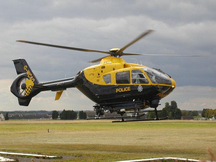 Eurocopter EC135T, shared by the police forces of Avon and Somerset, and Gloucestershire, built 2001, photographed at the Heli-Day, Kemble, England, in August 2003.